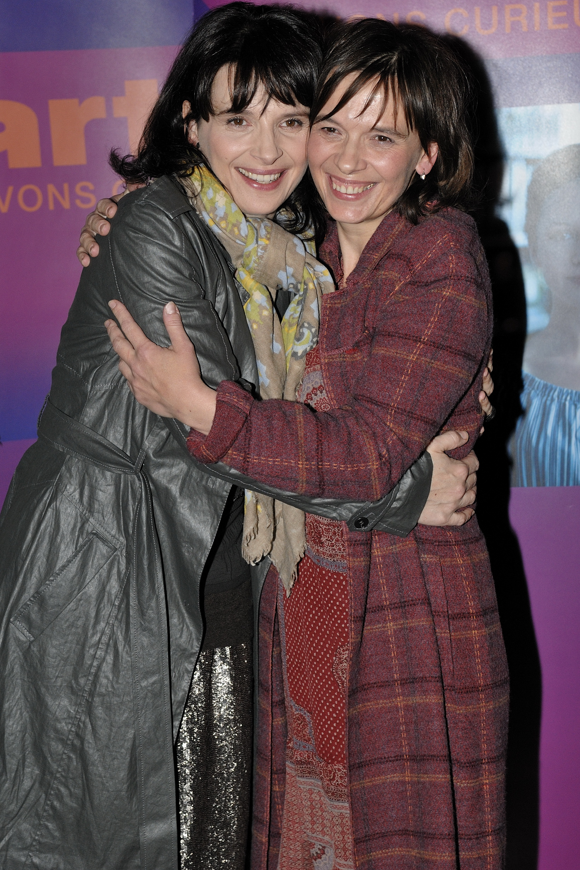 Juliette Binoche (French actress) and her sister Marion Stalens (director) pose prior to the screening of their movie 'Juliette Binoche dans les Yeux' held at the Elysee Biarritz movie theatre in Paris, France on October 22, 2009. Photo by Nicolas Genin/ABACAPRESS.COM